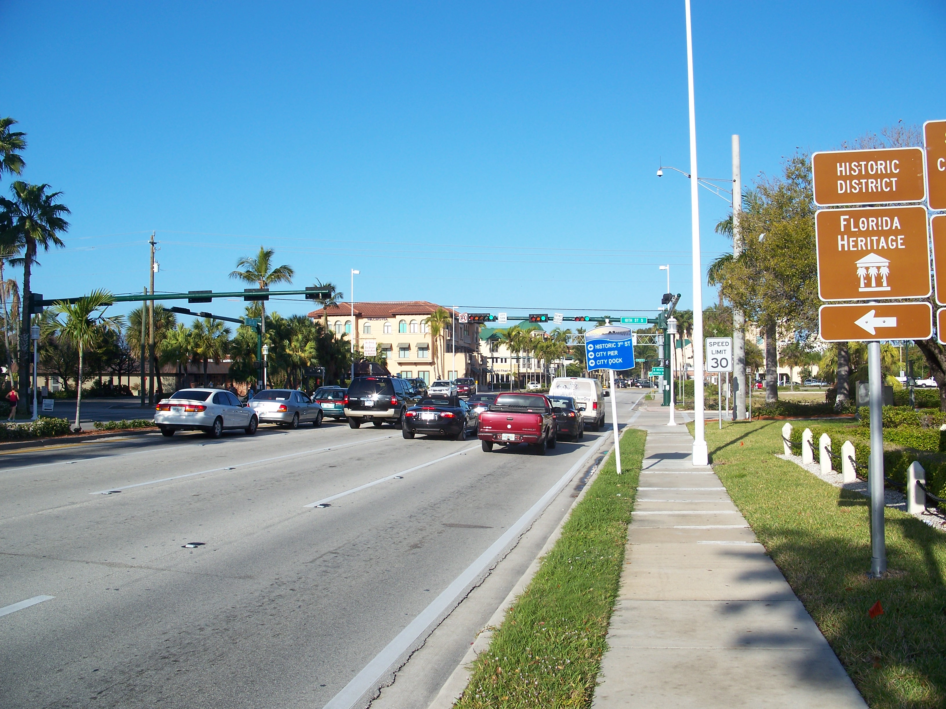 Naples, Florida: Tamiami Trail, looking west towards downtown.